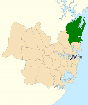 This image incorporates data that is: © Commonwealth of Australia (Australian Electoral Commission) 2009 Division of Mackellar 2010